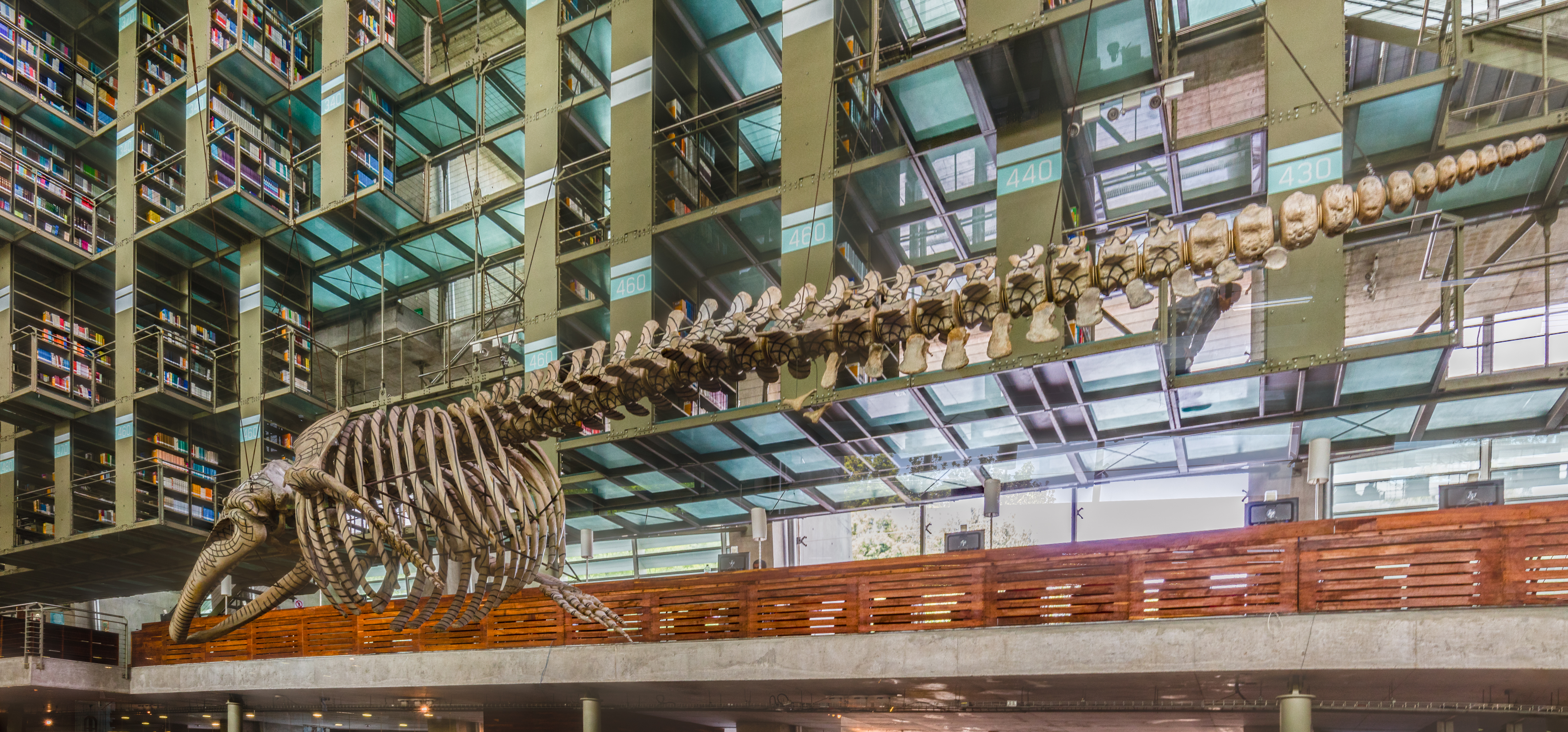 Skeleton of a Gray Whale (Eschrichtius robustus), Vasconcelos Library, Mexico City, Mexico